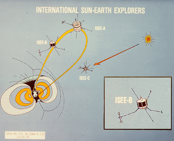 International Sun-Earth Explorer 2 (detail view) with orbit